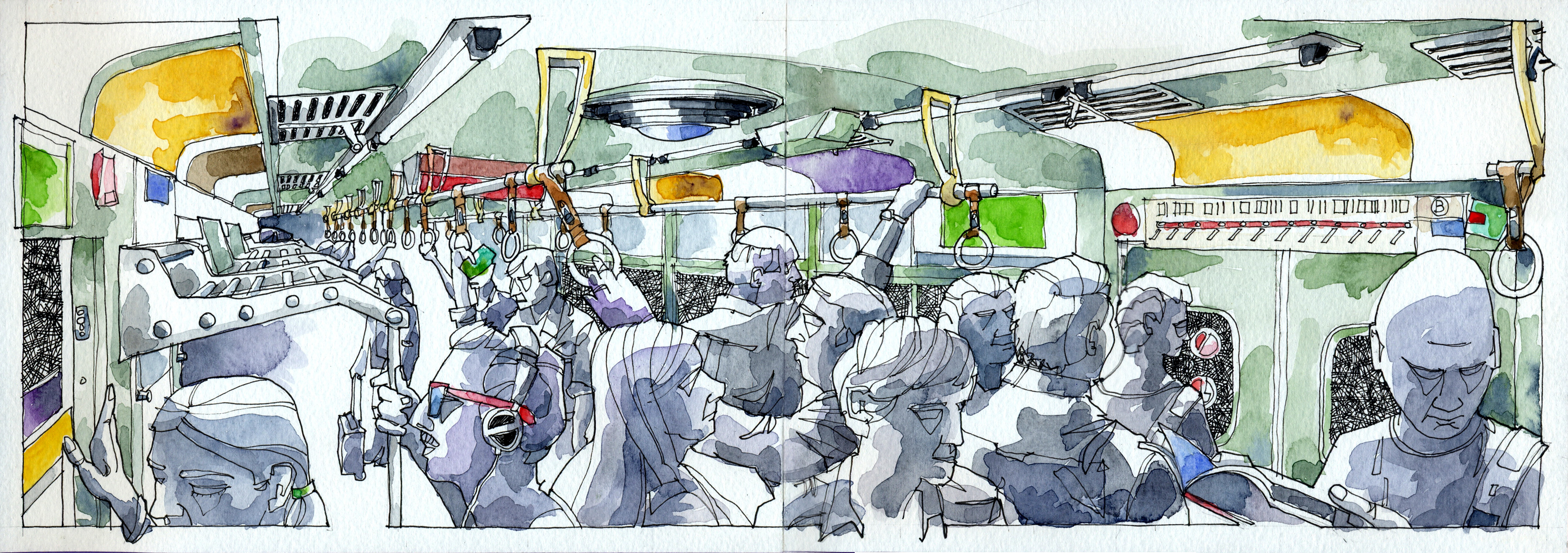 Inside view of a subway car in the Buenos Aires metro at rush hour.